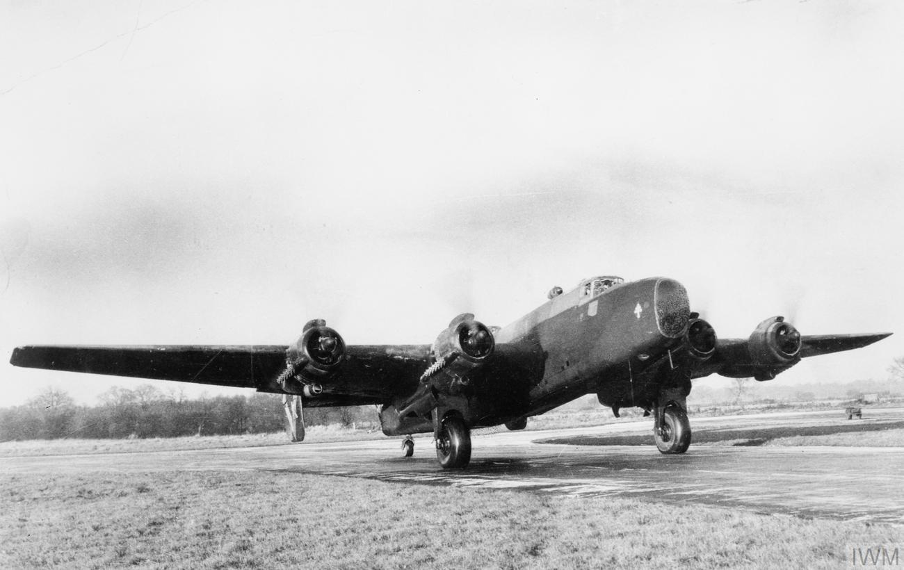 Royal Air Force Bomber Command, 1942-1945. A Handley Page Halifax B Mark III of No. 347 (Free French) Squadron RAF, taxies to its dispersal at Elvington, Yorkshire.